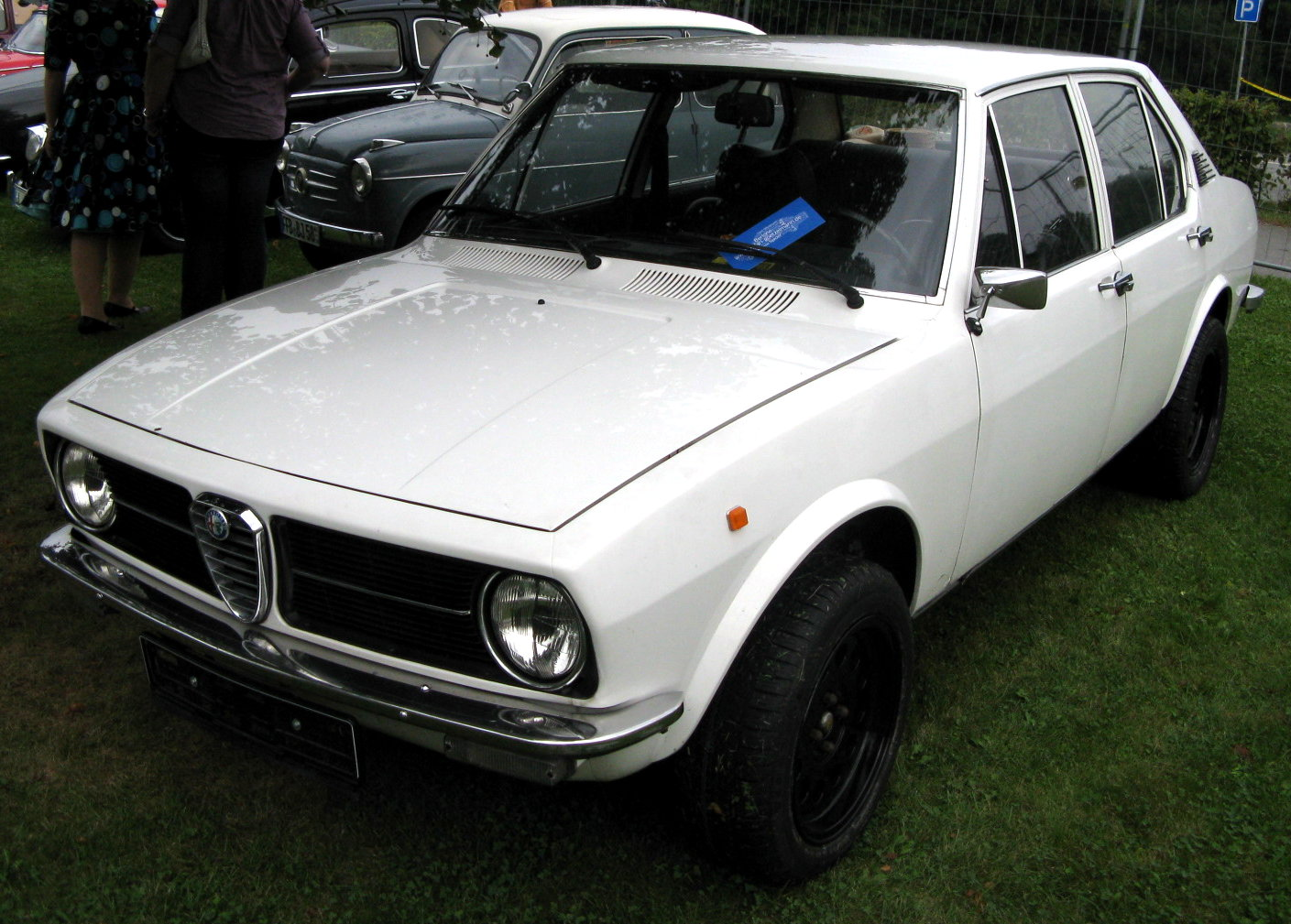 Alfa Romeo Alfetta 1.6 at vintage vehicle show in Fürstenfeld (Bavaria)